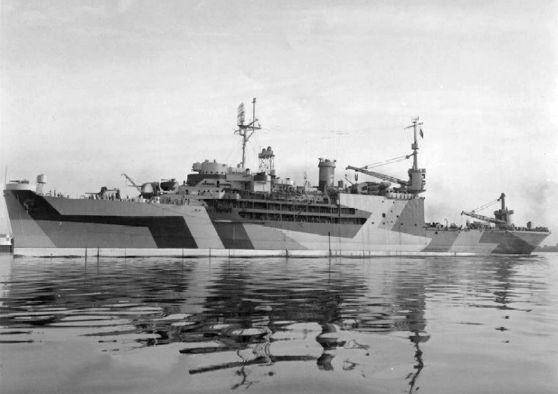 The U.S. Navy seaplane tender USS Currituck (AV-7), near the Philadelphia Navy Yard, on 19 July 1944, just three days before completion.